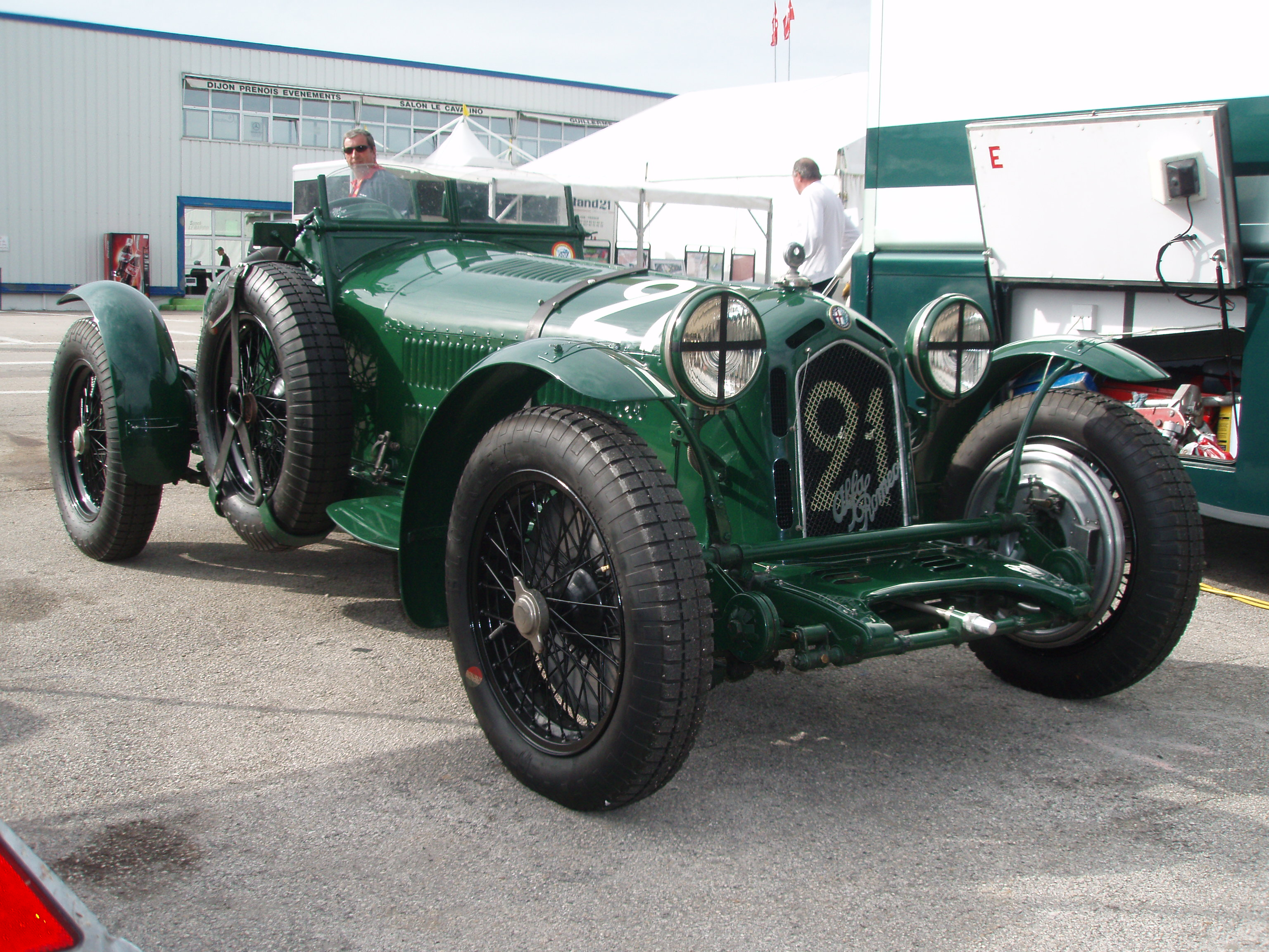 An Alfa-Romeo 8C 2600 race car in the 2007 "Grand Prix de l'Âge d'Or" in the pitlane of Dijon-Prenois.